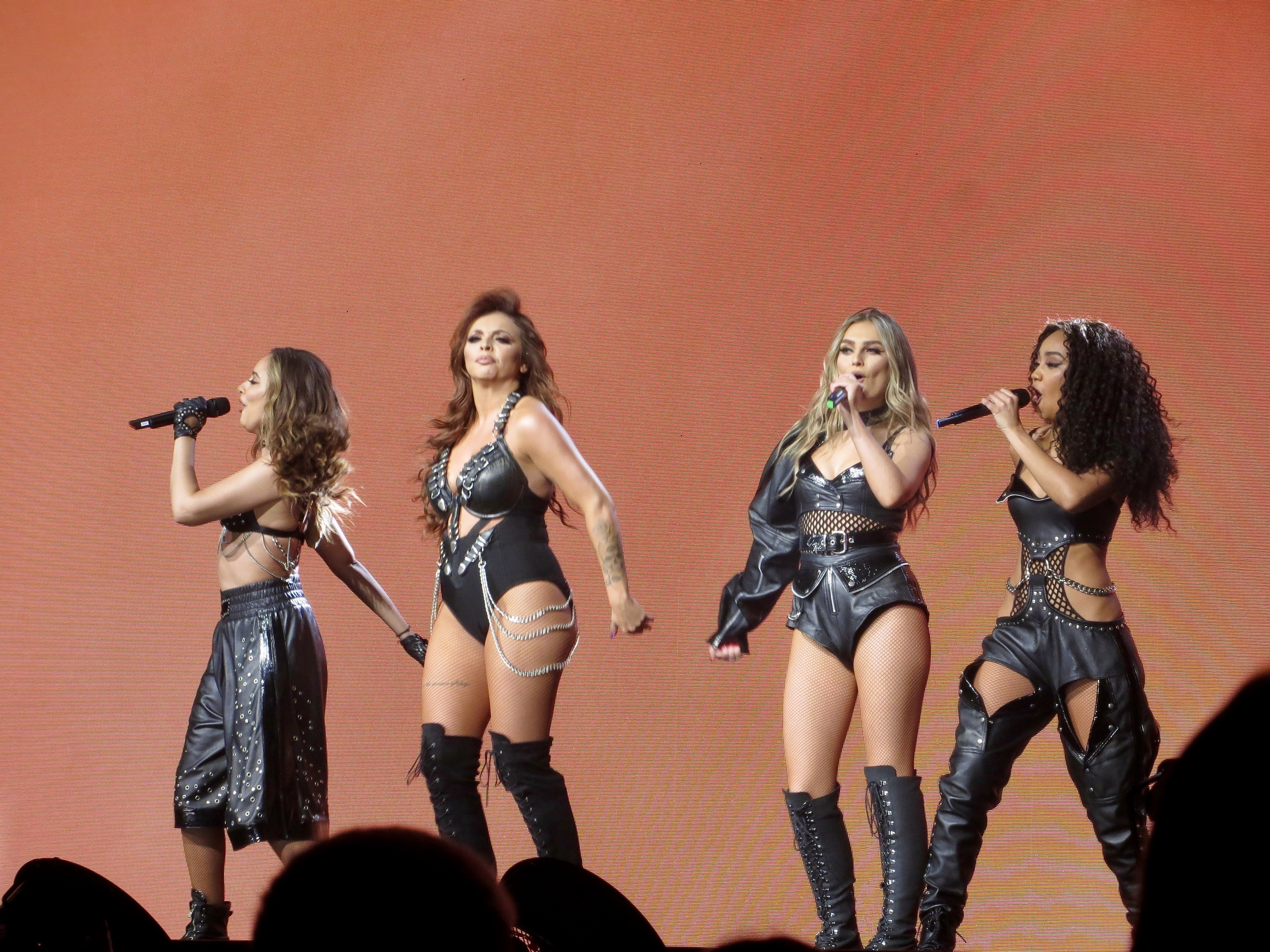 Little Mix in concert in Glasgow, Scotland, UK